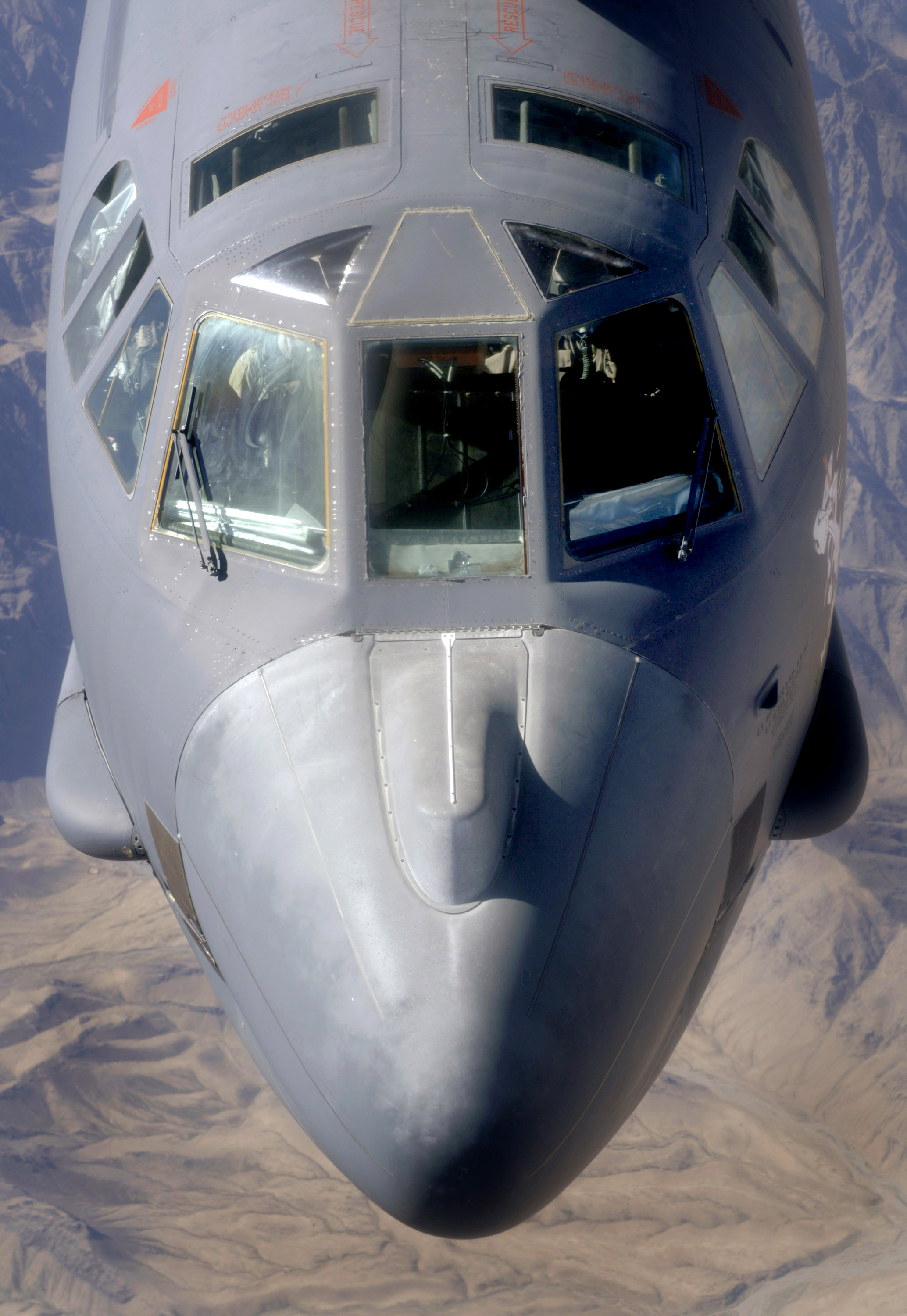 A B-52 Stratofortress bomber refuels during a close-air-support mission. The KC-135 Stratotanker transfers fuel to the bomber at about 16 gallons per second. The bomber is from the 2nd Bomb Wing at Barksdale Air Force Base, La